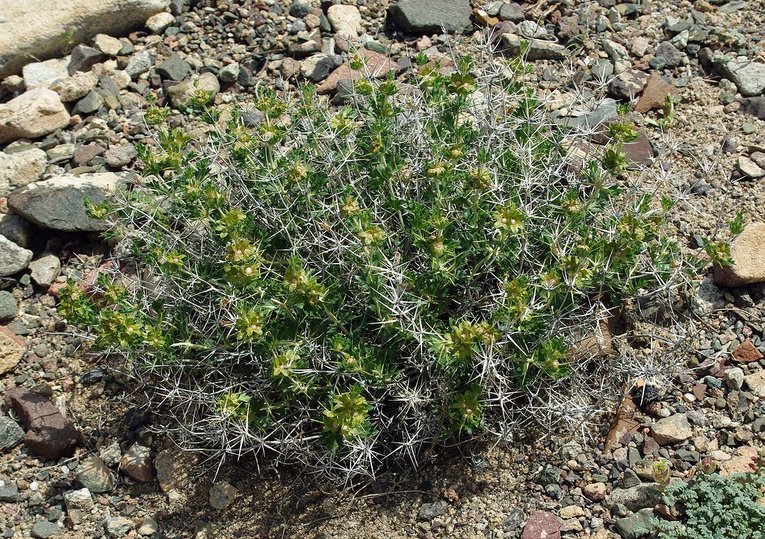 Lagochilus platyacanthus in buds, Kazakhstan, Almaty region, Sogeti Mtns